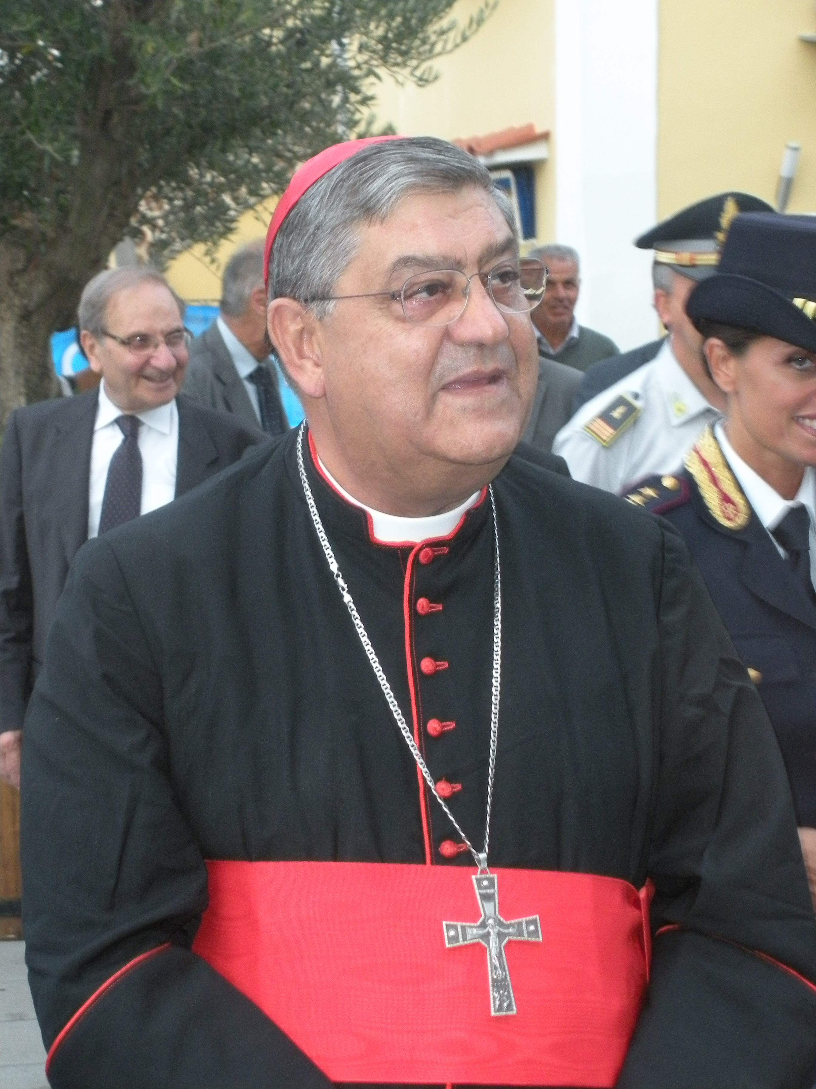 Crescenzio Sepe, Italian cardinal and Archbishop of Naples.